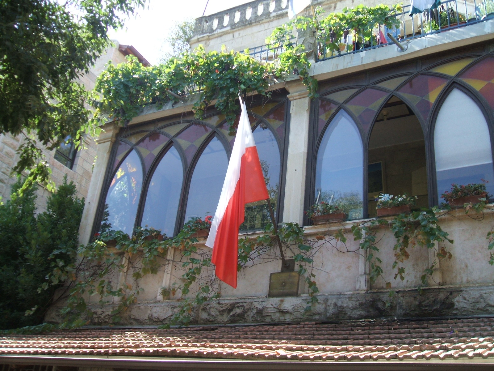 Home of the Polish honorary consul in Jerusalem